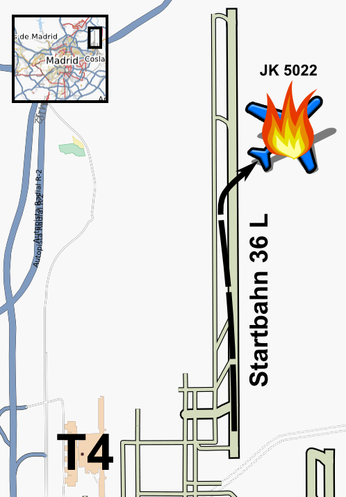 Position of the Spanair Flight JK 5022 crash.